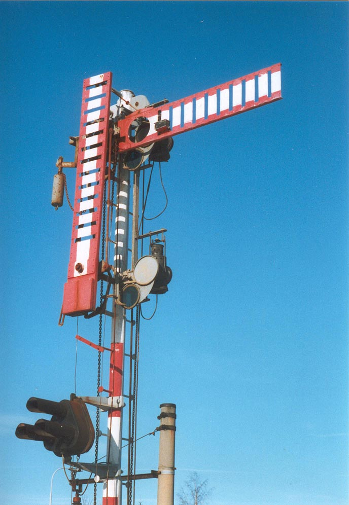 Former two-arm entry signal of the station Říčany, Czech Republic